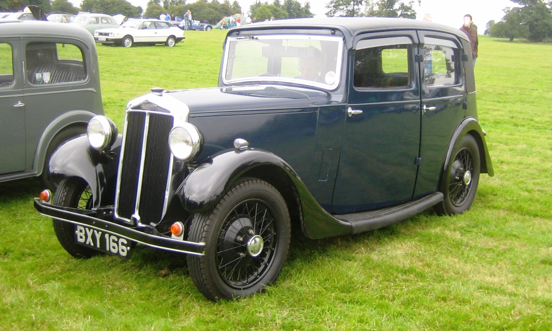 Lanchester Ten Dorchester 4-light saloon at Knebworth Classic Car Show